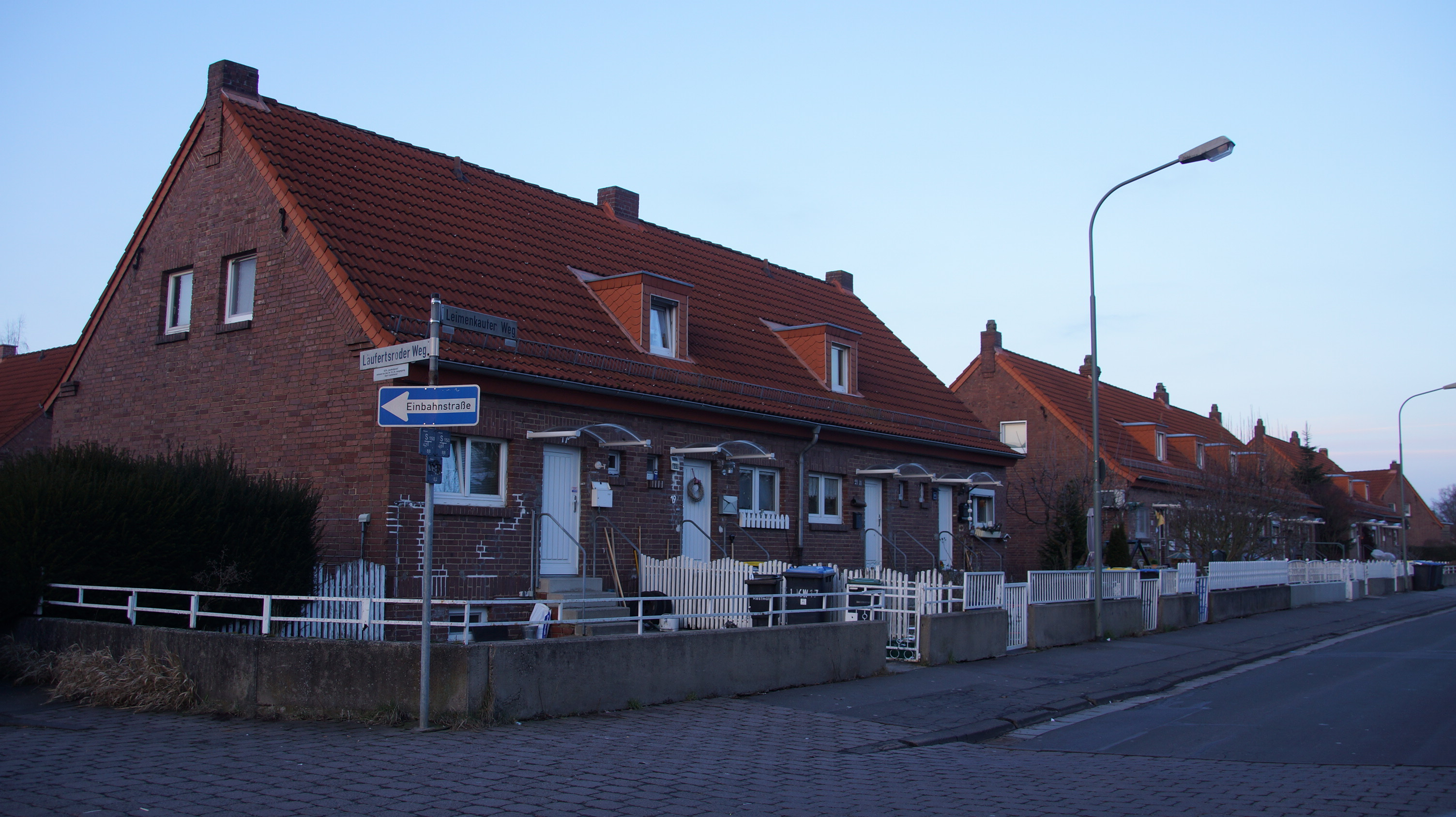 Gummiinsel (Rubber Island) is the nick name of this estate in Gießen (Germany), because most of its inhabitants worked at a rubber factory nearby.